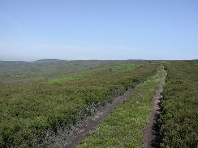 Gamekeepers track over North Ings Moor Gamekeepers track over North Ings Moor with Guisborough Woods in the background